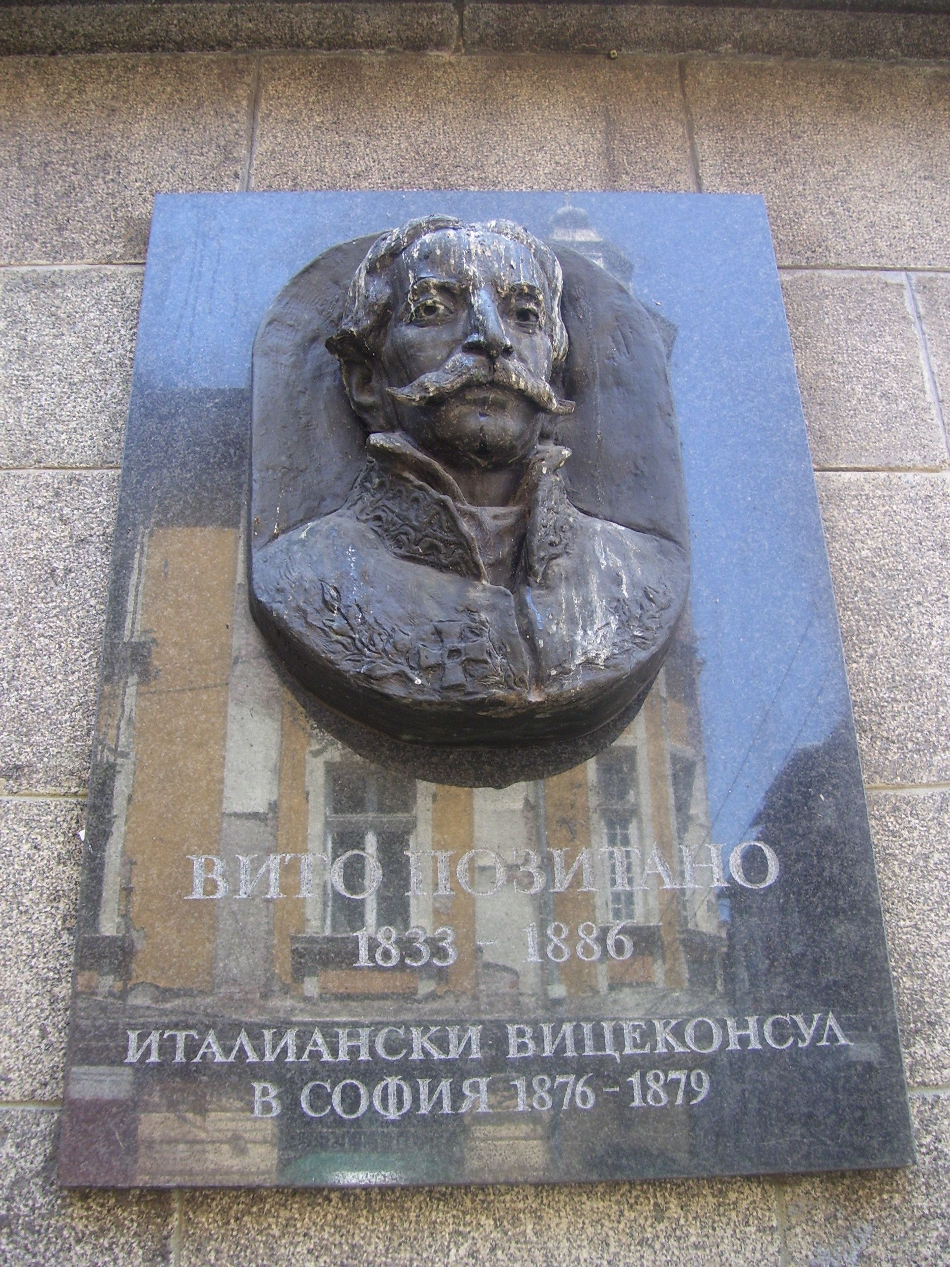 Memorial plaque on Positano Street, Sofia, Bulgaria.